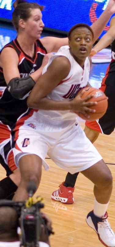 Charde Houston in the UConn Women vs Cincinnati basketball at the Hartford Civic Center 19 January 2008